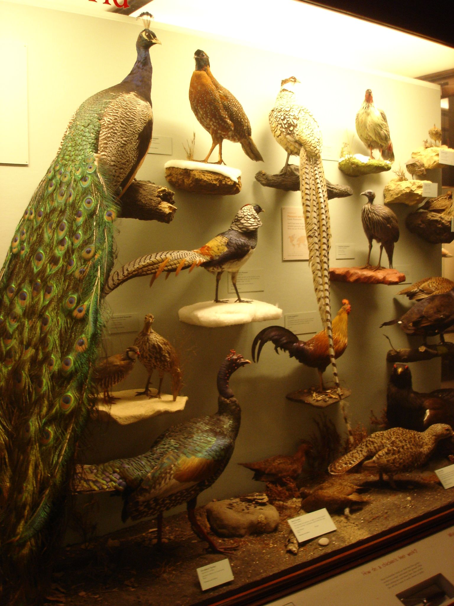 Field Museum, Chicago, Illinois, USA